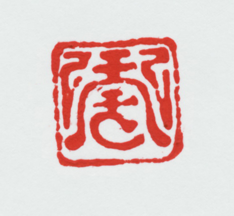 Itoin imprint of a seal: a Japanese old seal